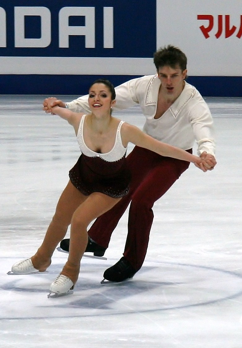 Stefania Berton and Ondřej Hotárek at the 2011 World Figure Skating Championships